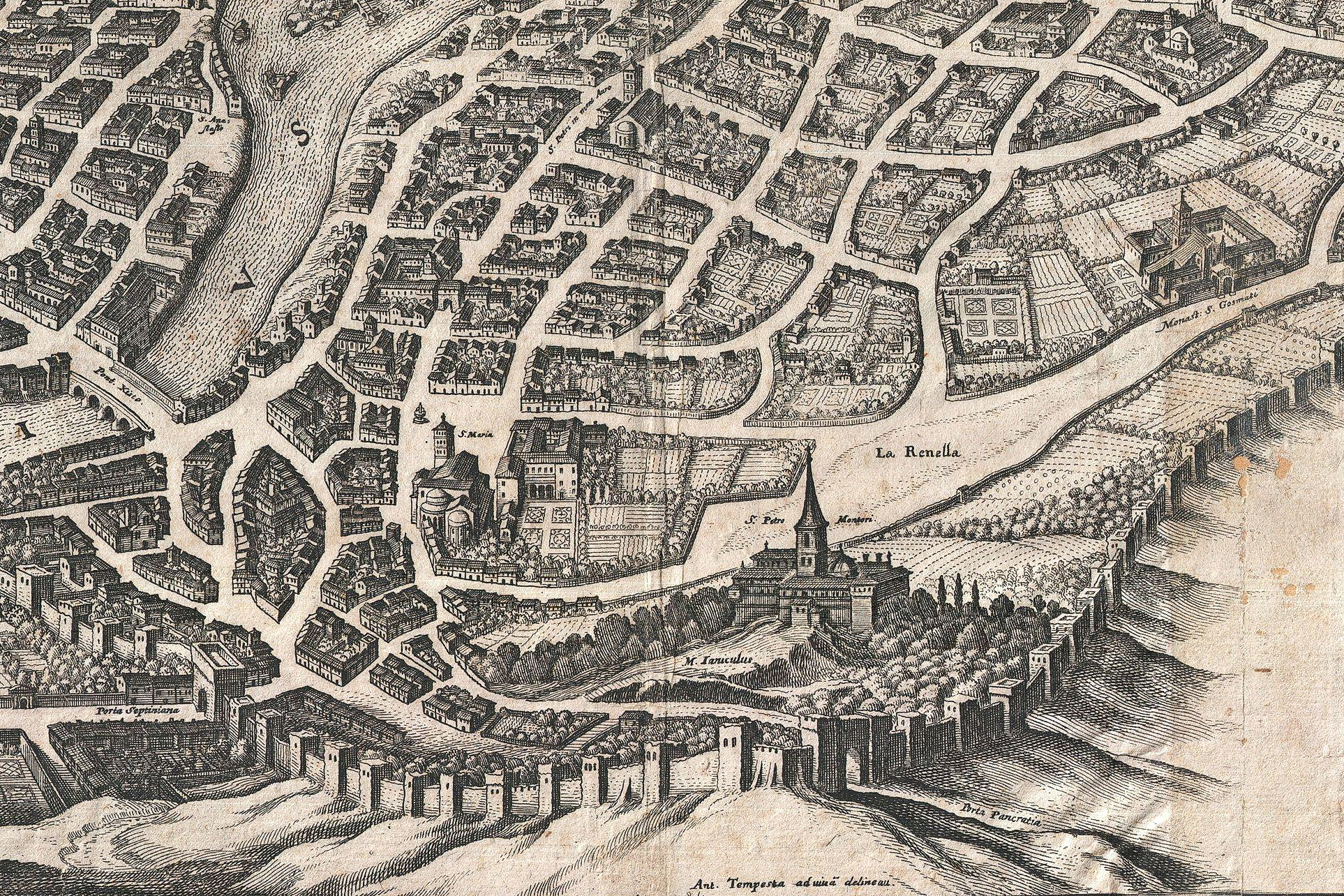 Gianicolo and San Pietro in Montorio (Rome); Merian 1652